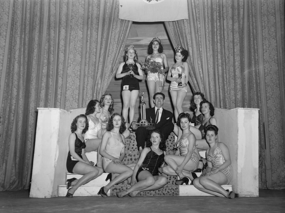 Competing and winning the beauty contest Miss Montreal in swimsuit, surround a man in a suit holding the trophy Miss Montreal.